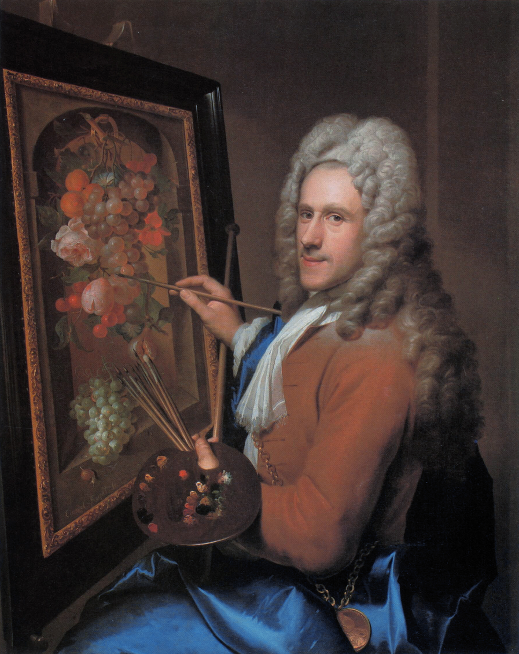 Coenraet Roepel (1678-1748), painting a still-life oil on canvas 110,5 x 87,25 cm inscribed b.r.: RBlee.. signed b.l.: Coenaet . Roepel . fecit 1705 - 1727